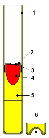 Simple blasting cap